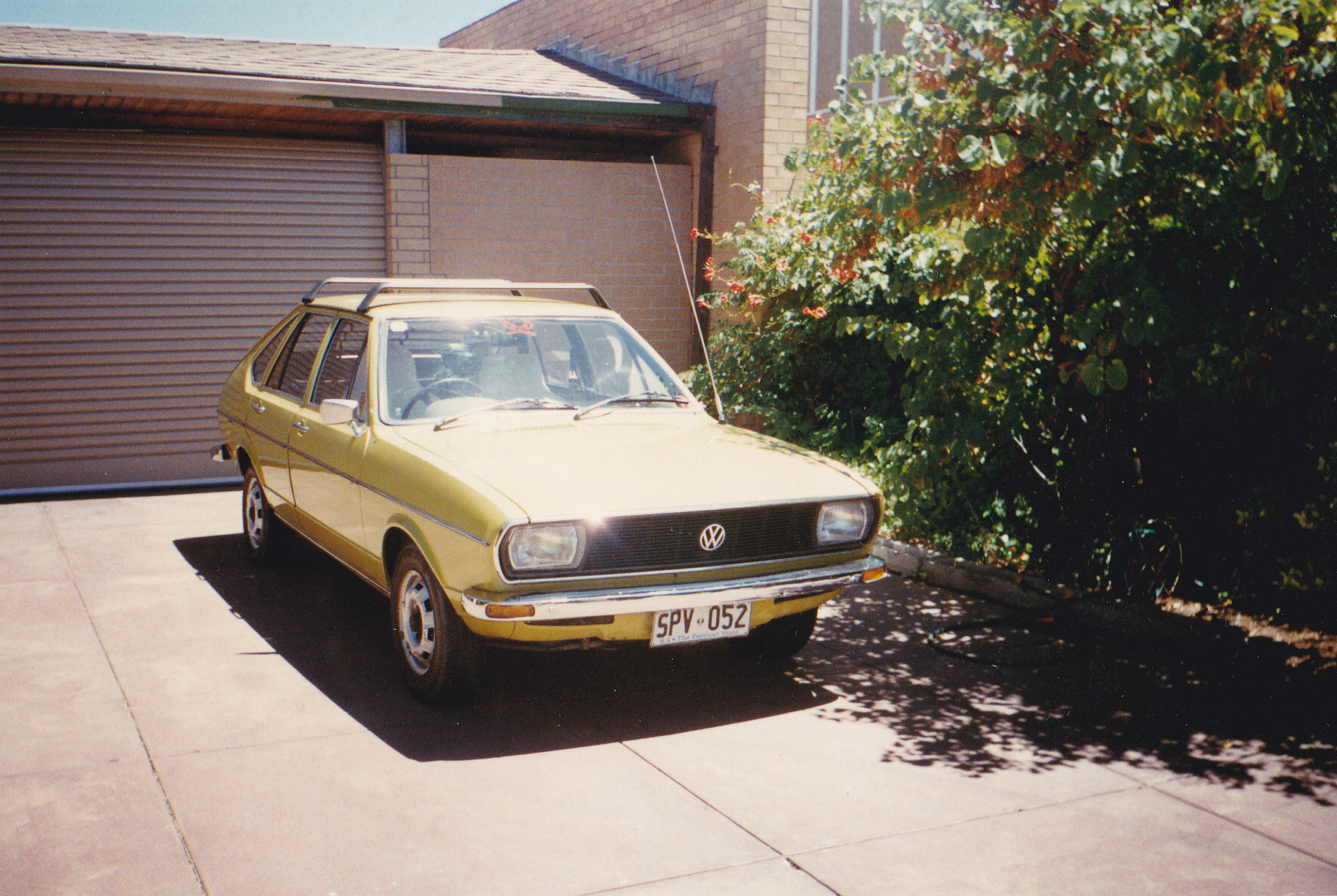 This is my first car I ever bought and was the start of my obsession with European cars and Volkswagen's in particular!! I was 18 when I bought it with my own money, from the part time job I had working in a department store. I had this car for 2 years before I bought the white Passat wagon.